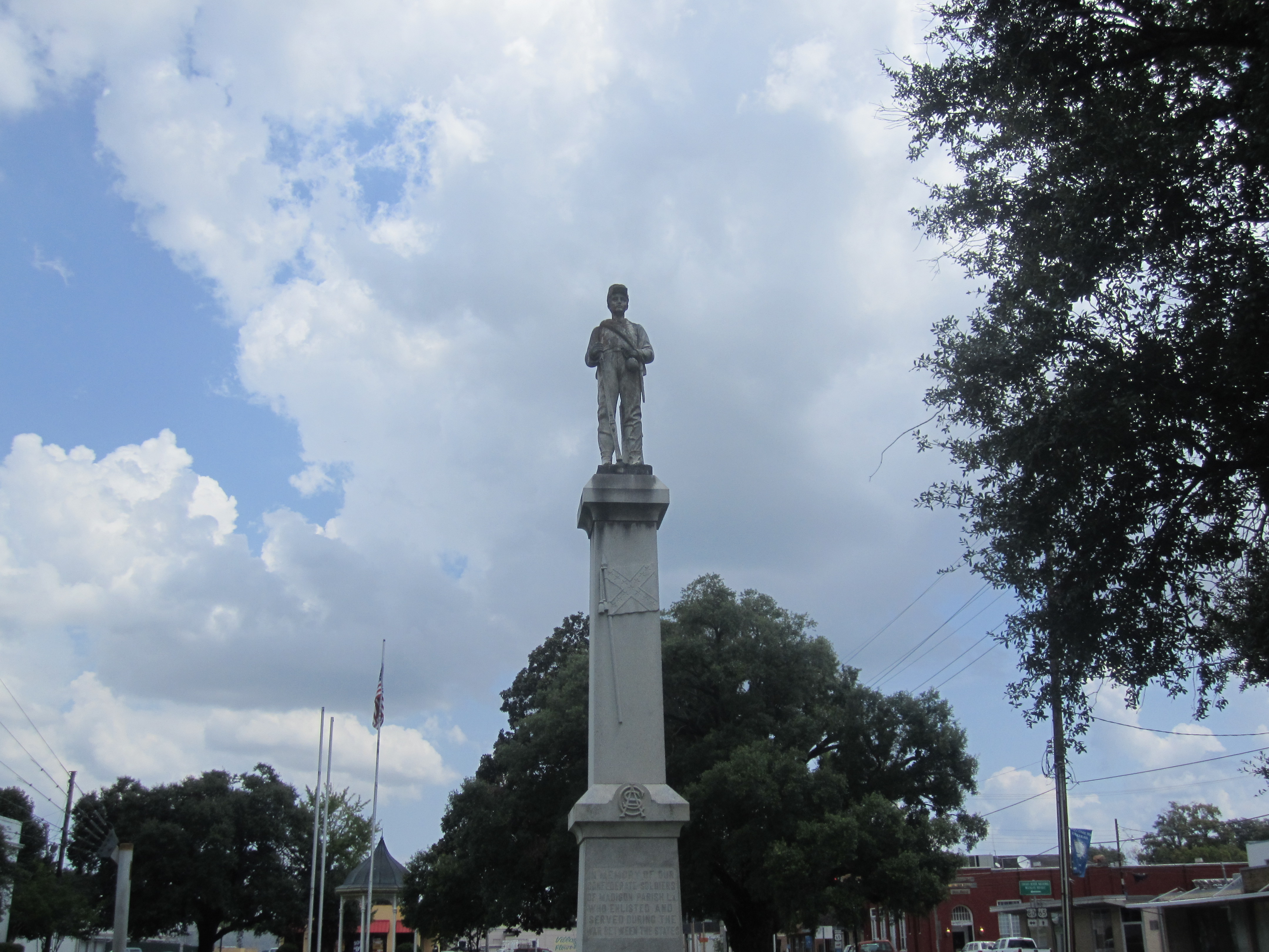 Confederate soldier statue, Madison Parish, LA I took photo with Canon camera in Tallulah, LA.